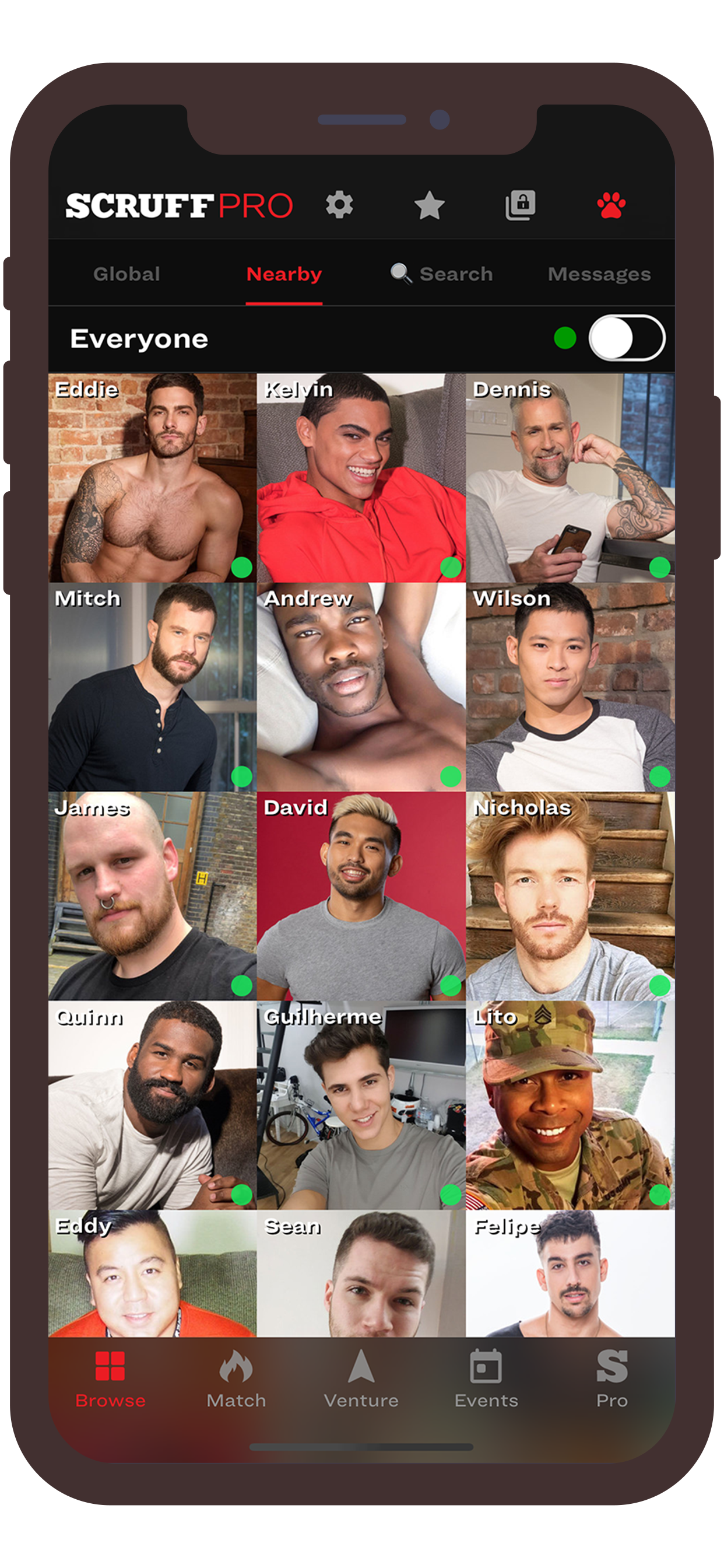 A screenshot of main page of Scruff